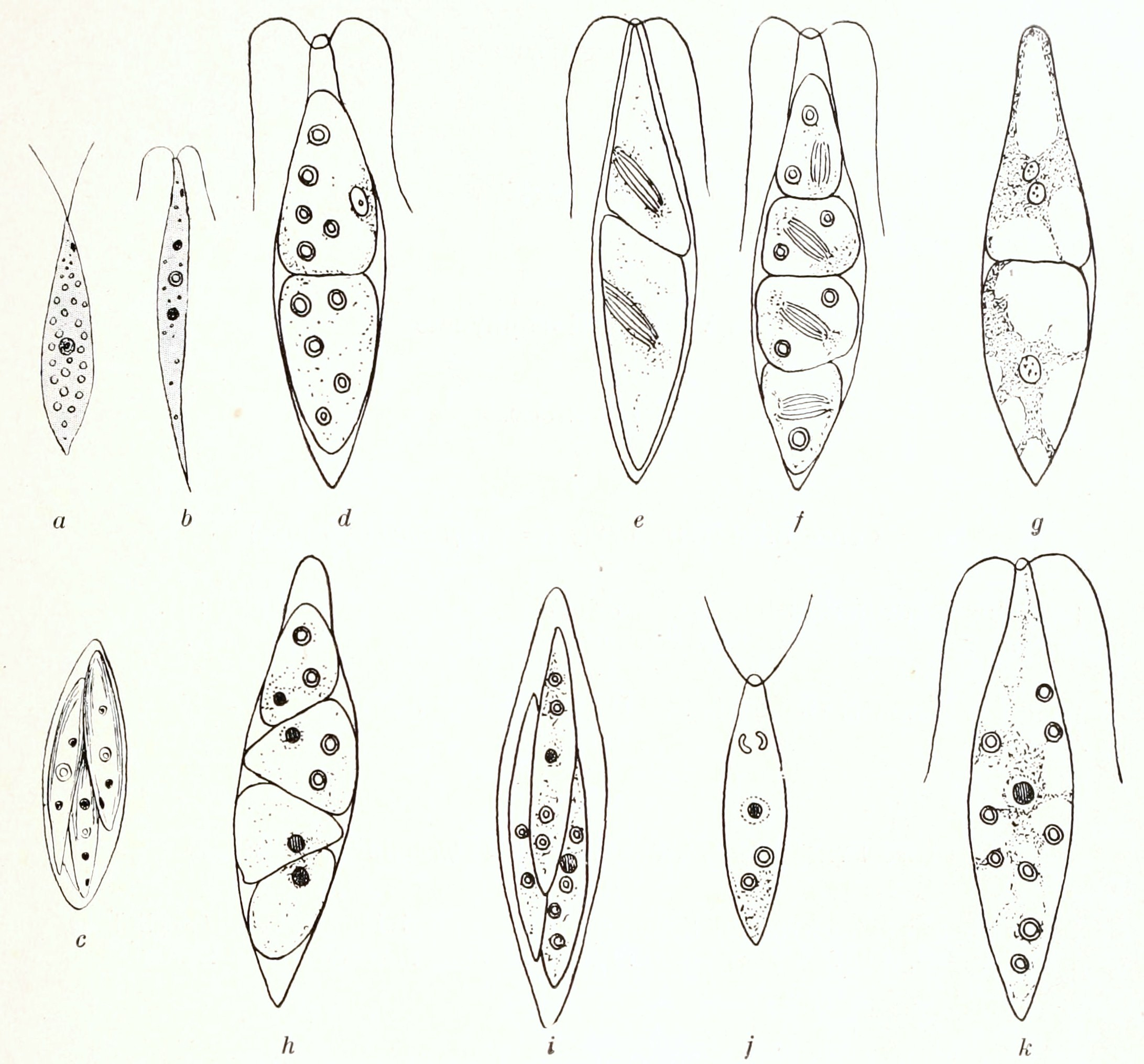 Chlorogonium euchlorum by Coupin